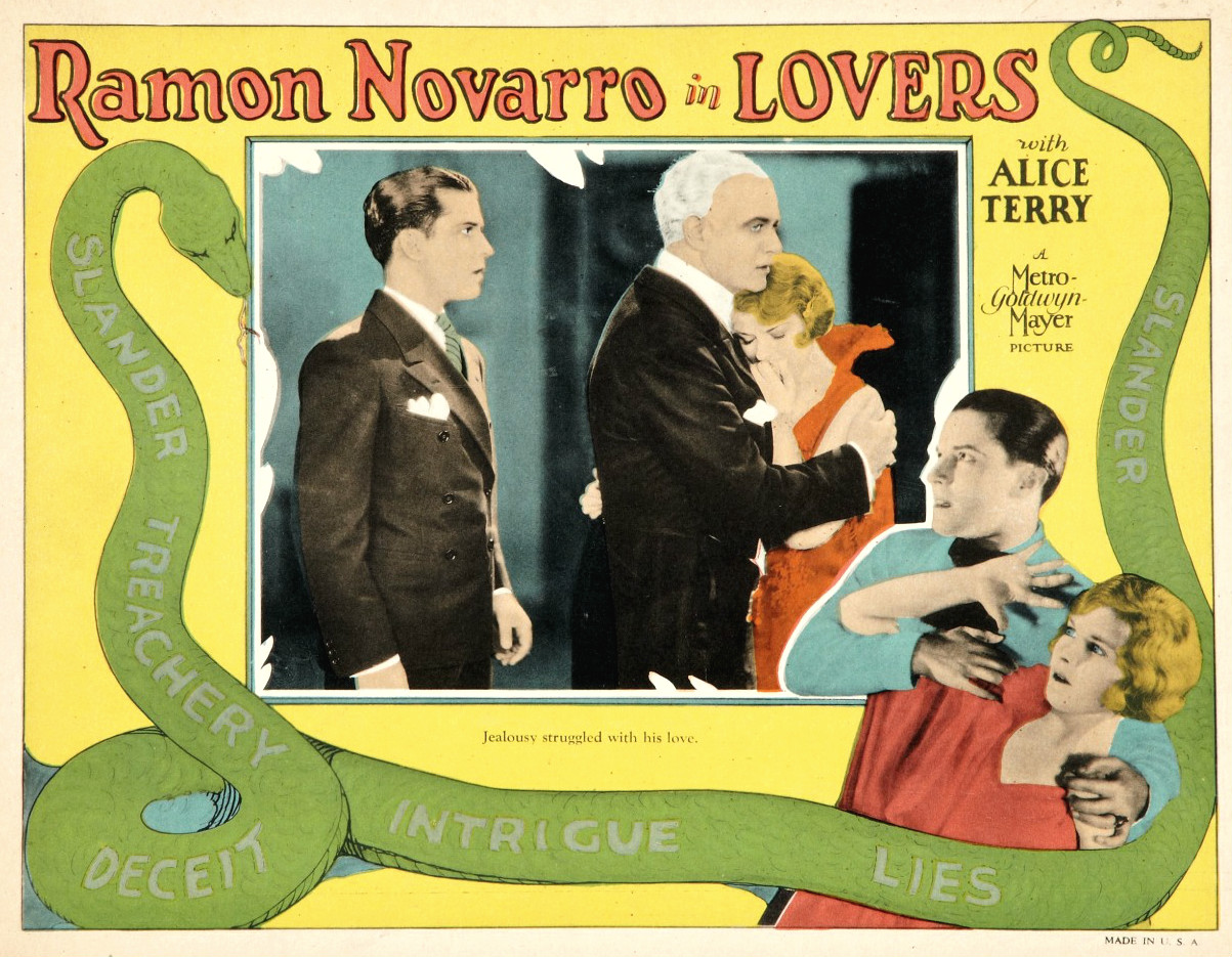 Lobby card for the American romance drama film Lovers (1927).